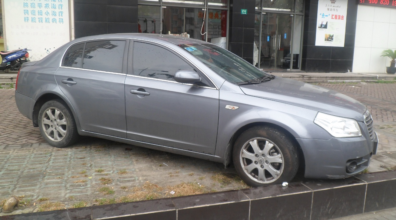 Besturn B70 photographed in Shanghai, China.